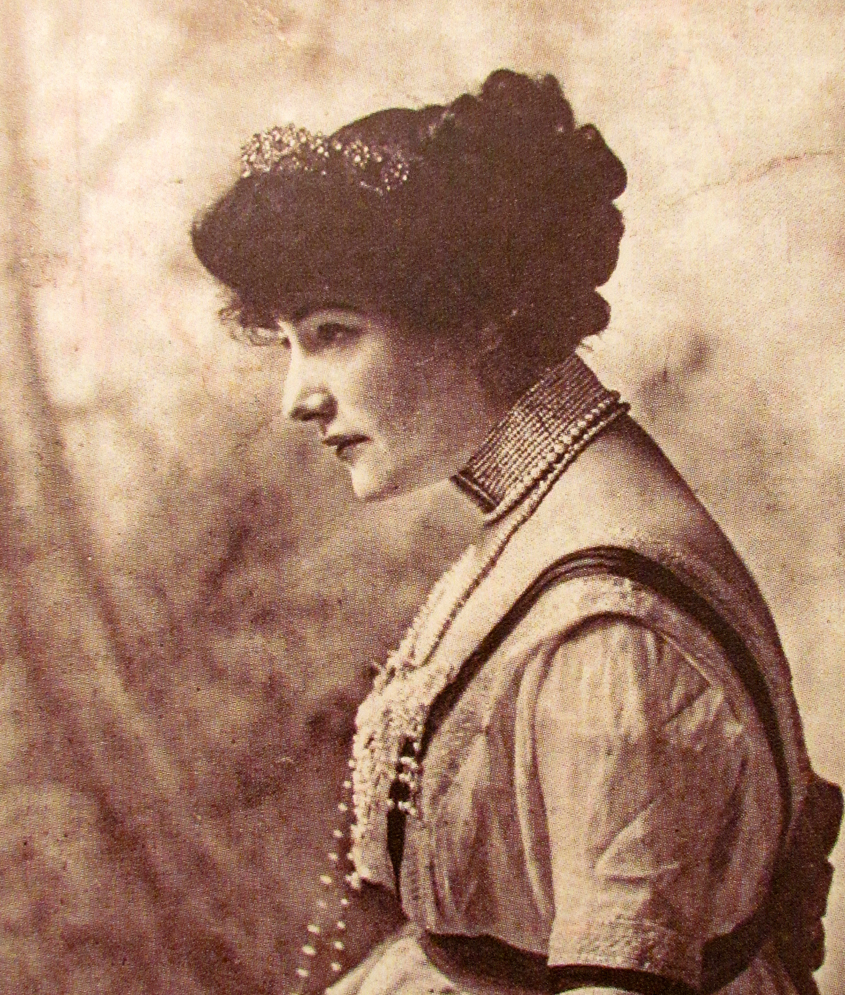 Mabel Grujic the Director of the Serbian Hospital Fund, Archives of Serbia